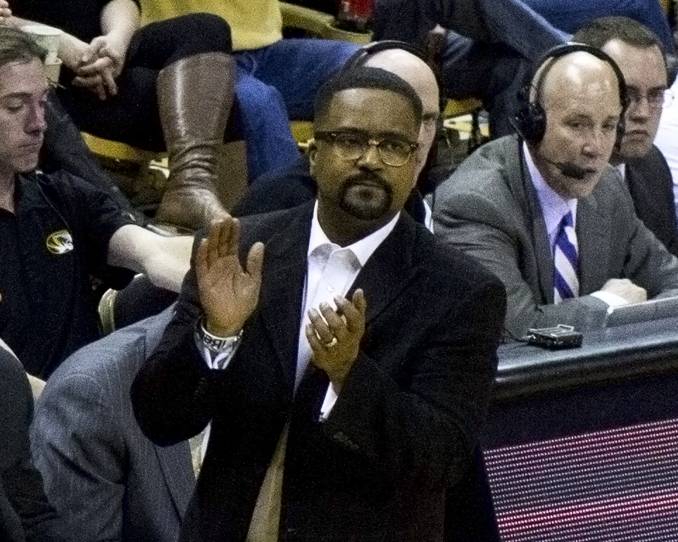 Head Missouri coach Frank Haith, at Mizzou Arena for a game against Texas A&M.